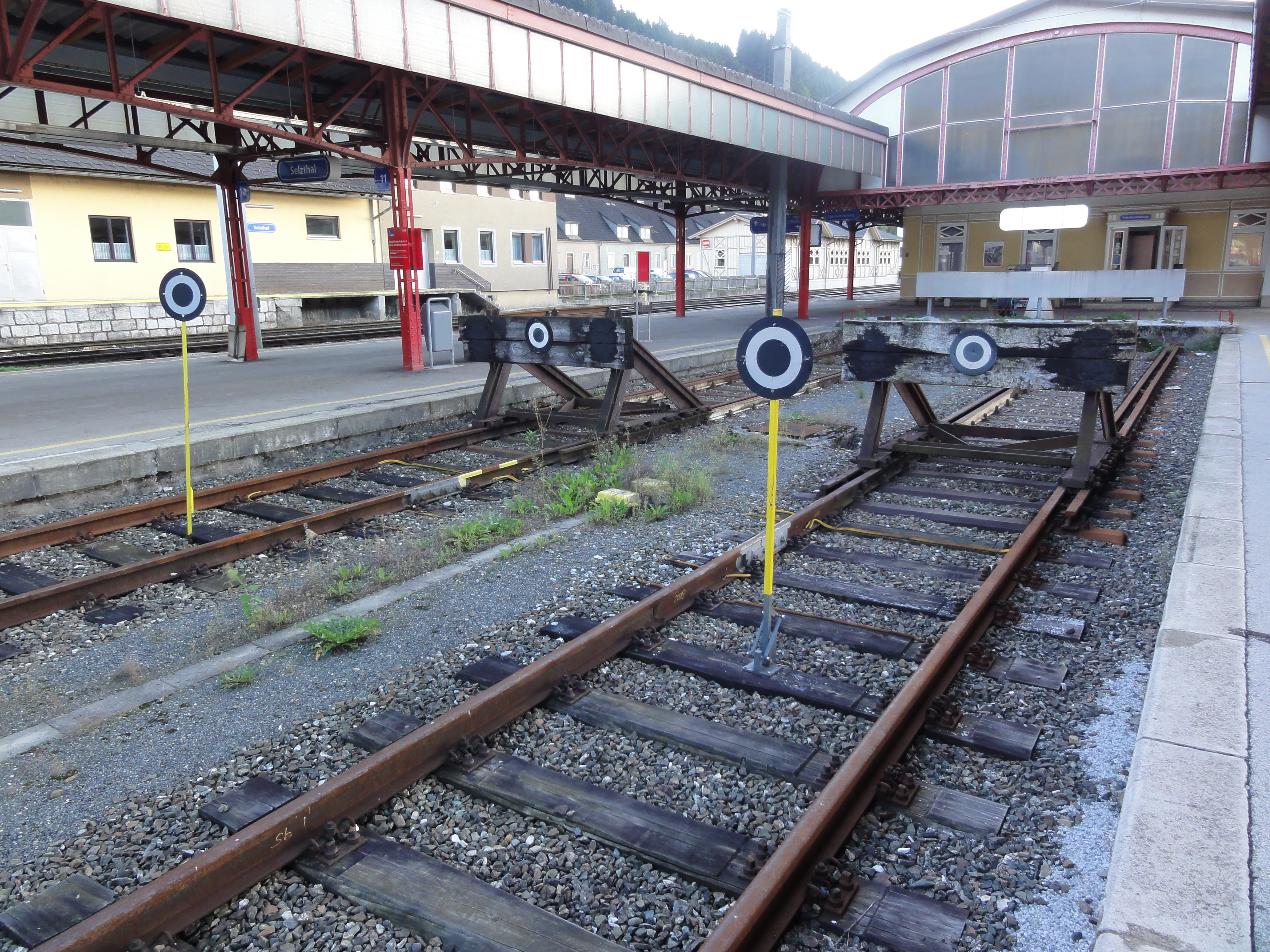 Two buffer stops at the austrian train station Selzthal.